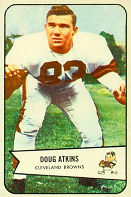 American football player Doug Atkins on a 1954 Bowman card.